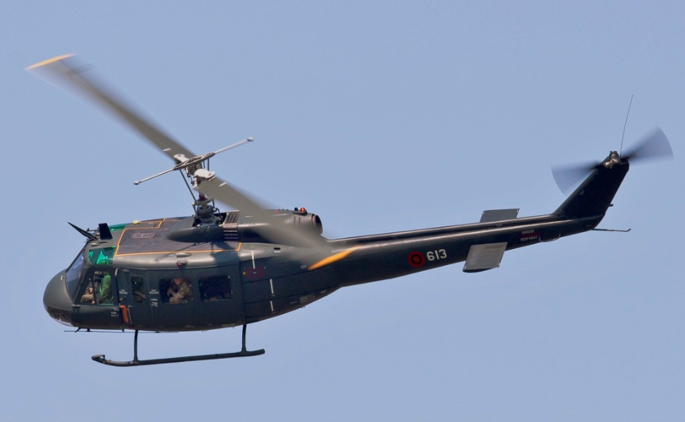 AB205 at Farke airbase